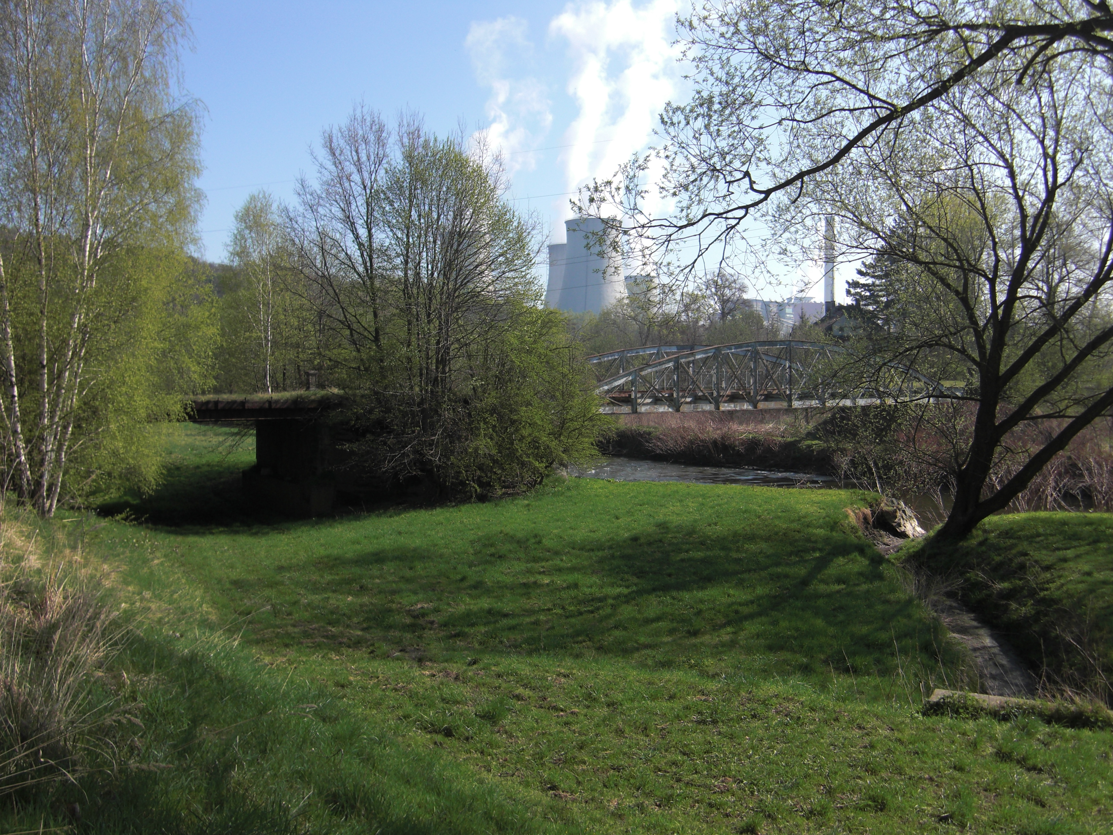 Blocked border bridge across the river Neisse between the Schengen-zone countries Germany and Poland in the town of Hirschfelde (city of Zittau) at the end of Neißgasse lane. Connection to Trzciniec Dolny (German Lehde). Bridge needs refurbishment to re-open to traffic.